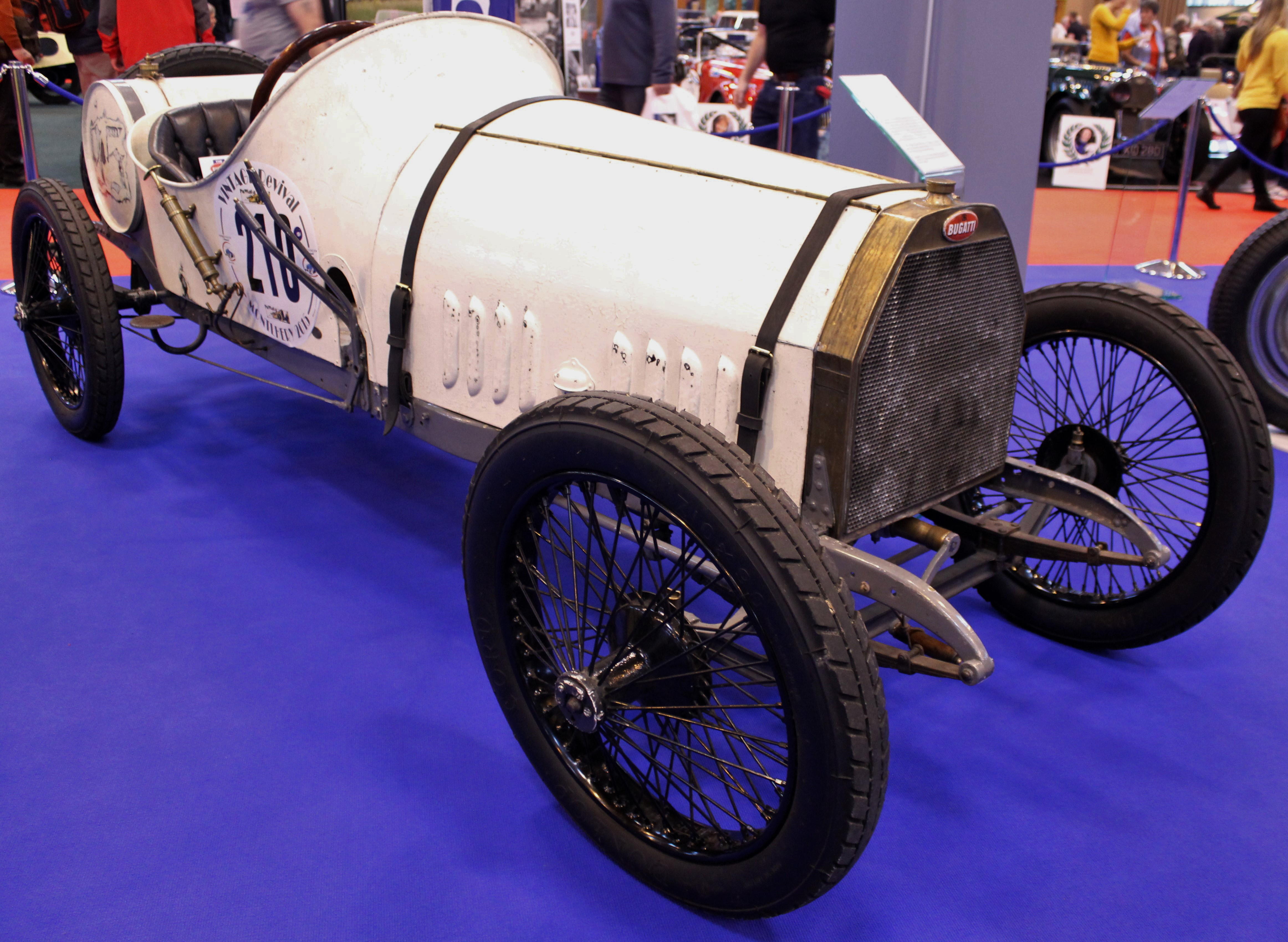 NEC Classic car show 2015